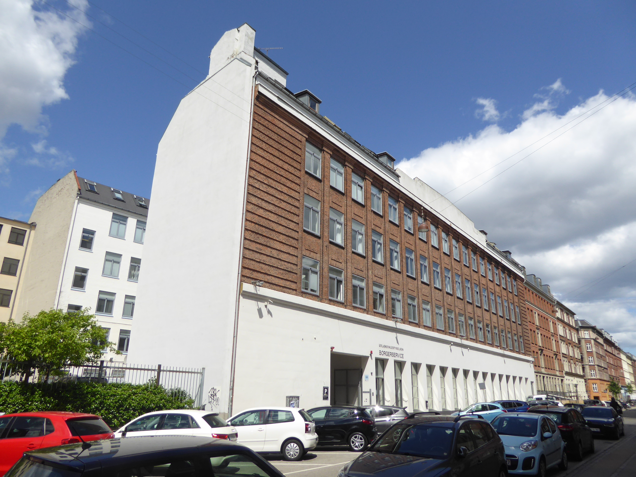 Citizen service of the Danish Immigration Service at Ryesgade in Østerbro in Copenhagen.